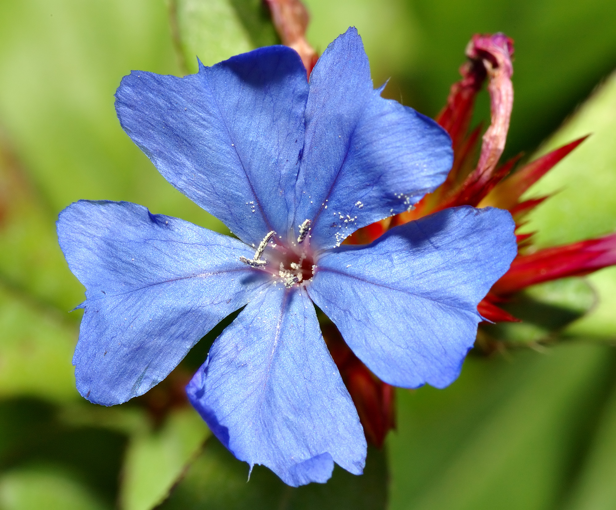 This image shows the blossom of a Blue Leadwood (Ceratostigma plumbaginoides).